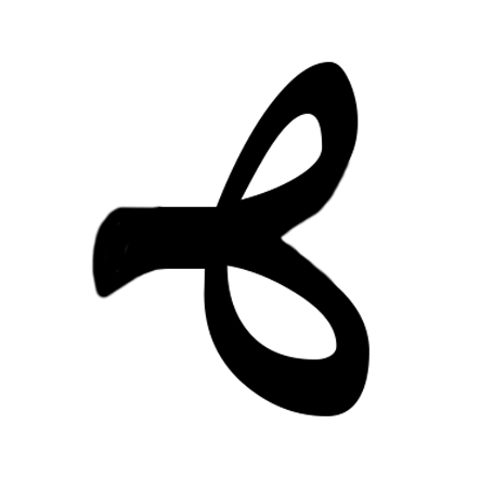 lettre ha de l'alphabet arabe